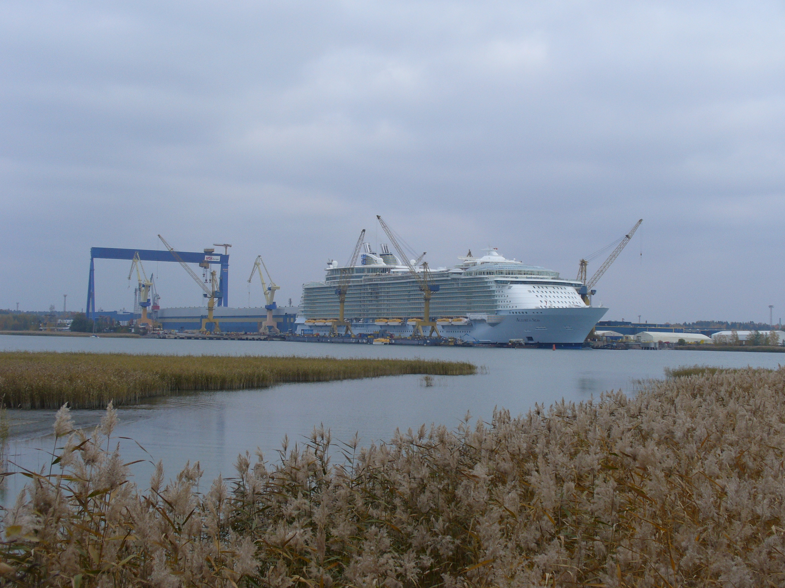 MS Allure of the Seas at STX Europe shipyard Turku, Finland. Also in the foreground grow much Phragmites (Common reed) (Phragmites australis).